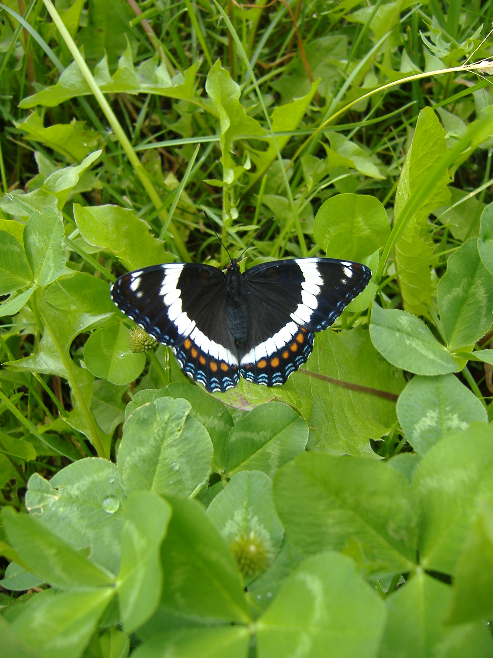 A butterfly that was sitting in my (weedy) lawn; Saskatoon, SK, Canada (approximately 52.12 N, 106.57 W)